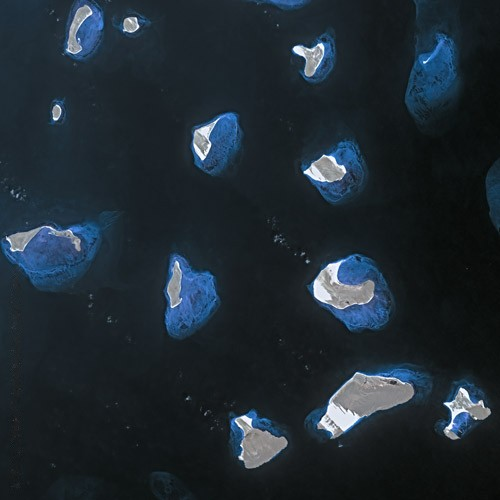 Dahlak Archipelago by SPOT Satellite